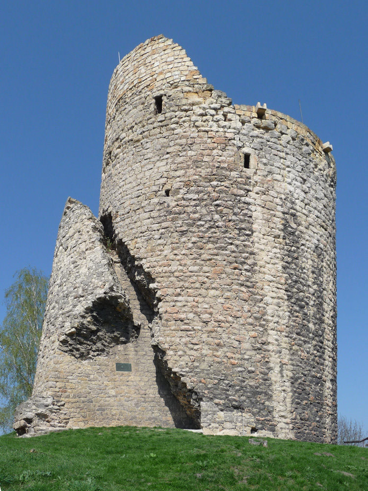 Michalovice Castle, Czech Republic